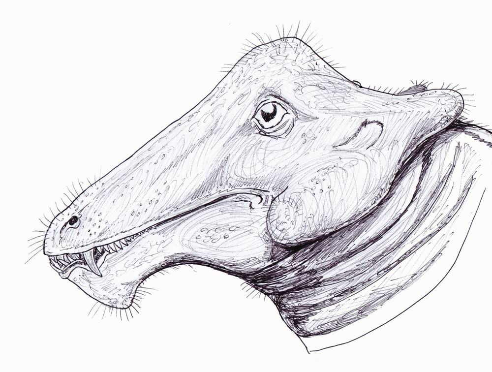 Styracocephalus